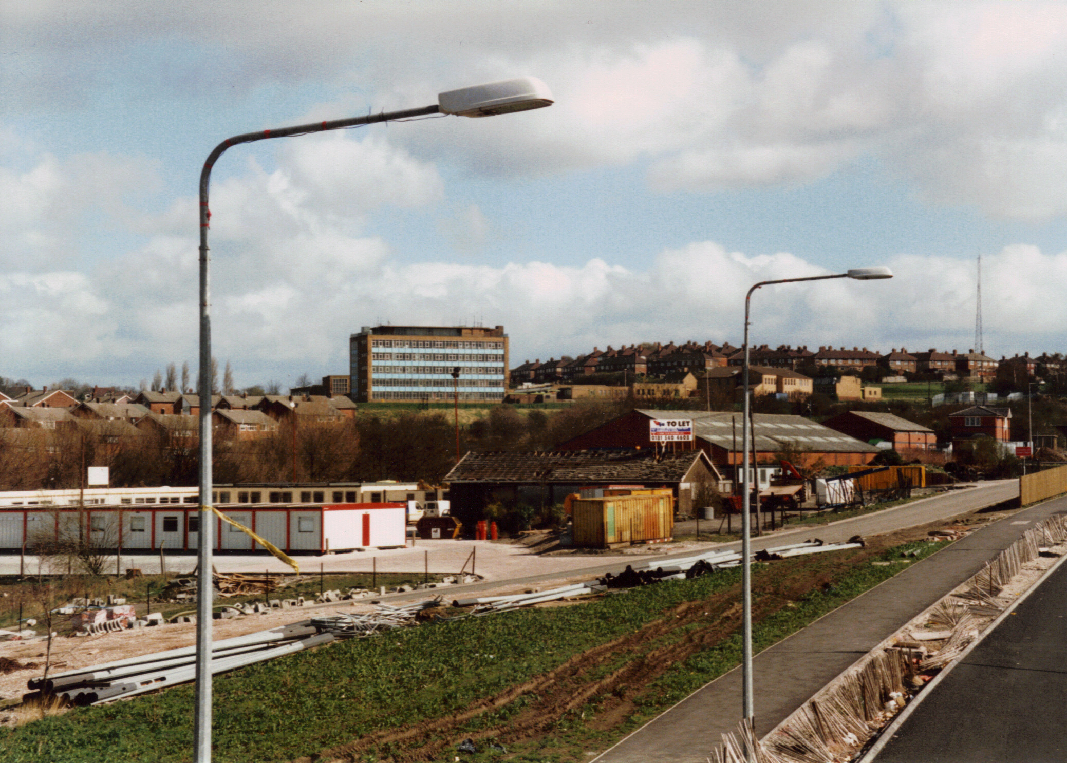 Longton High School during A50 construction